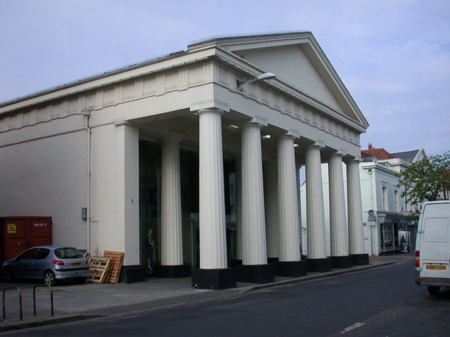 The old Corn Exchange, East Street Now a Next store